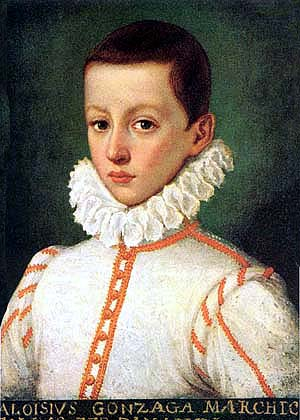 Aloysius Gonzaga as child